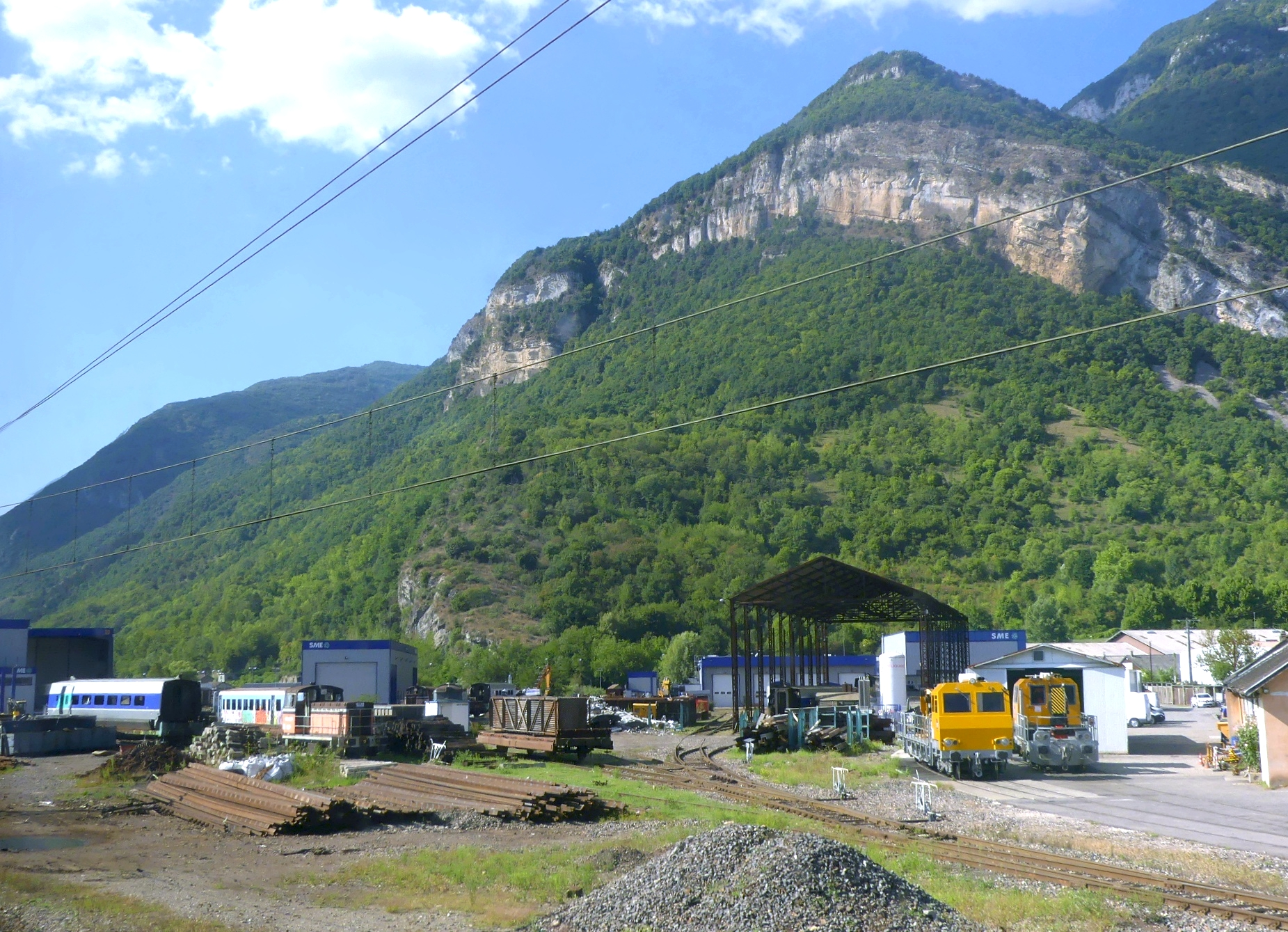 Sight of the railway destruction and recycling site of Culoz, ran by the Société Métallurgique d'Épernay (SME) company, in Ain, France.